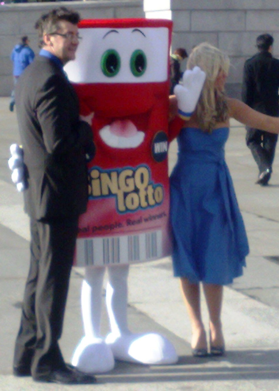 Joe Pasquale at BingoLotto launch